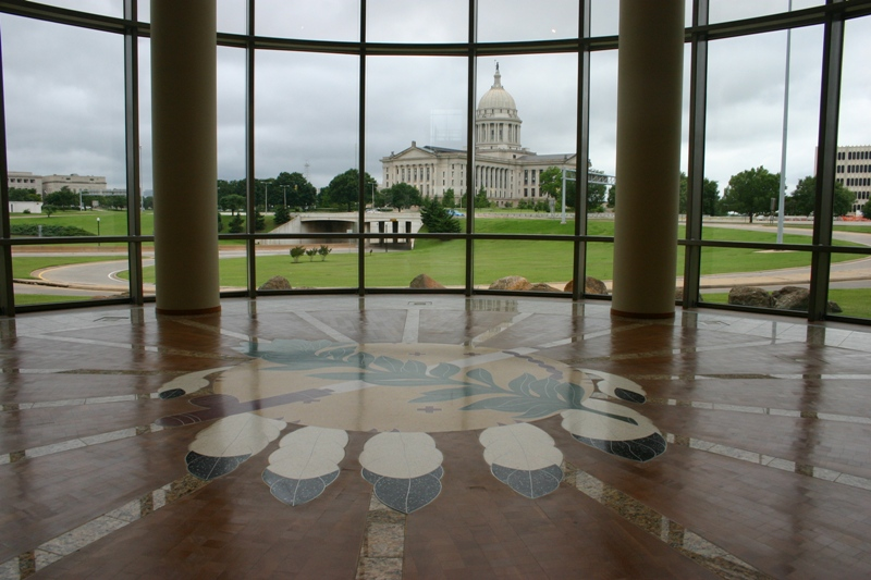 The new Oklahoma History Center is incredible. It is a beautiful building, with really great exhibits. I especially liked this view of the state capitol with the state seal.